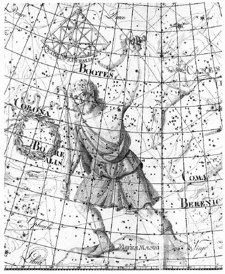 Constellations Boötes, Corona Borealis, Coma Berenices, Quadrans Muralis, Virgo, Libra, Canes Venatici, Mons Maenalus. Ophiuchi.